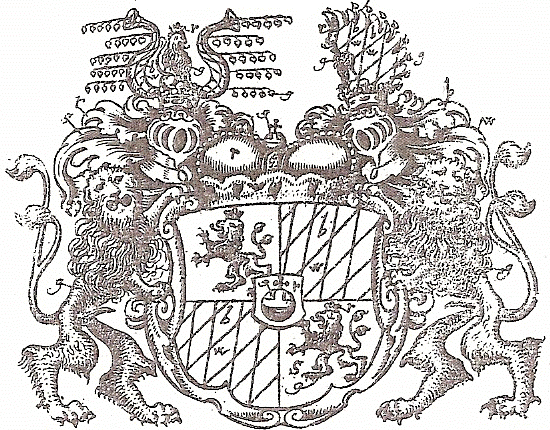 Coat of arms of the duke of Bavaria in 1703